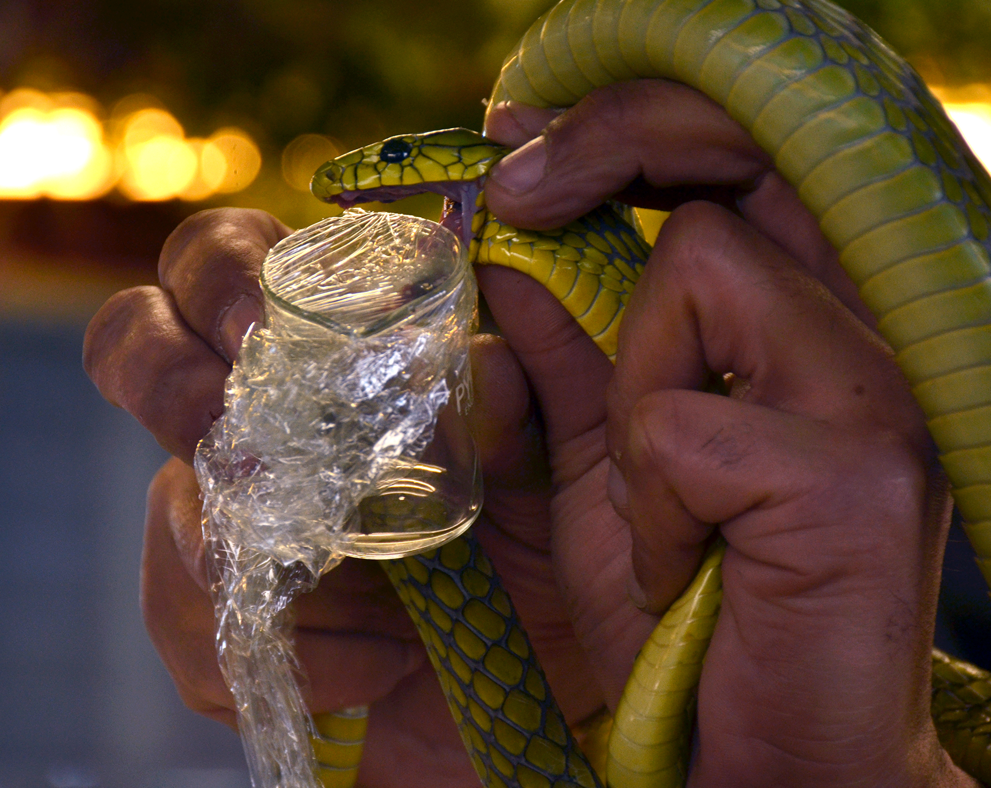 Getting venom. Exhibition organized by Reptiles du Monde in Palexpo, Geneva, from the 27th of September to the 2d of November 2014.